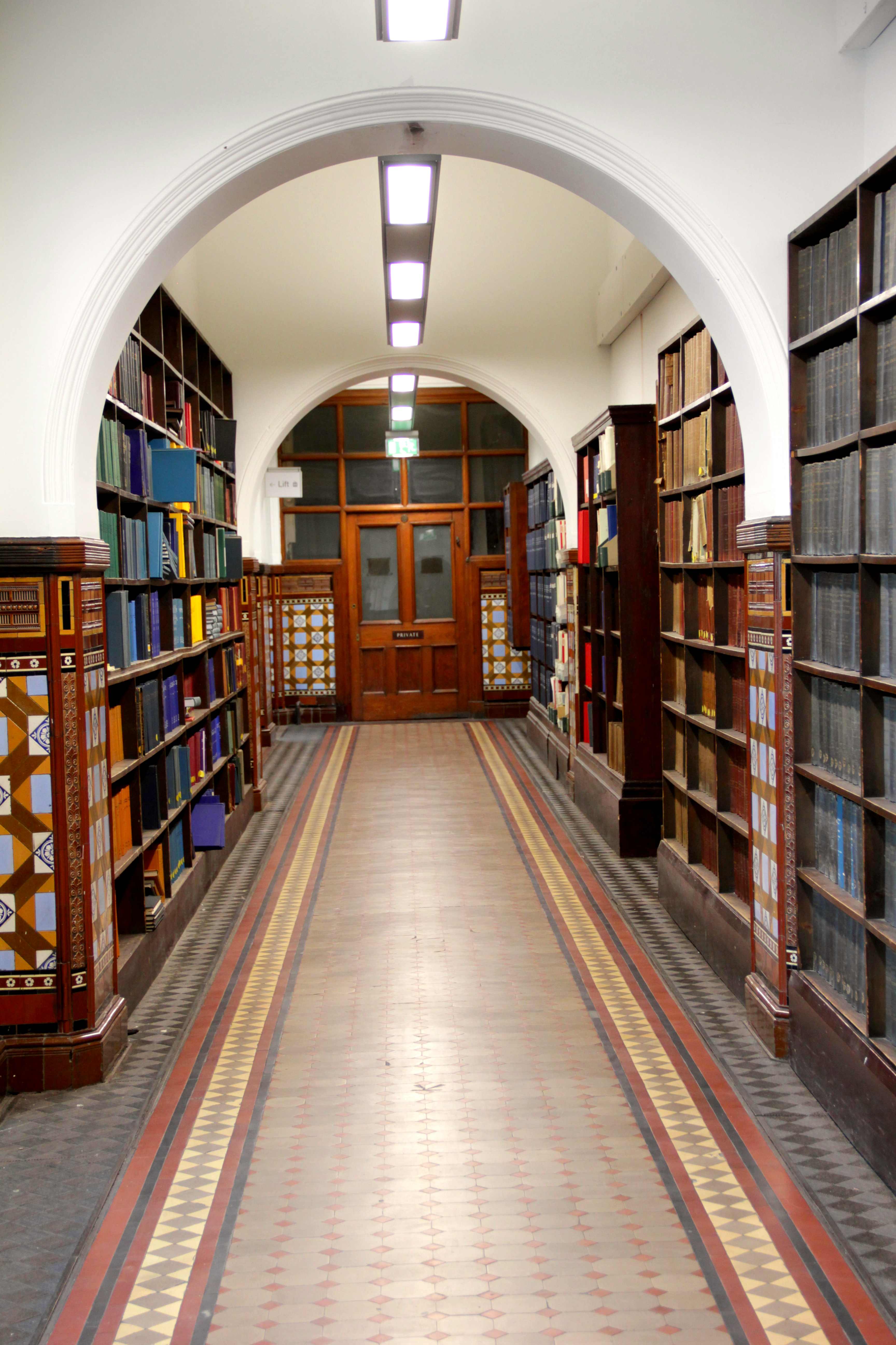 Interior of the former Municipal Buildings (now the Central Library), Leeds, West Yorkshire, England, built 1879-1884 to the design of George Corson. The general interior carving was executed by a team led by John Wormald Appleyard. The alabaster arch in the main entrance was made by Farmer & Brindley of London, and the reading room (now cafe) medallions were carved by Benjamin Creswick. George Wilson made the leaded clerestory windows of the original reference library, and Powell Bros made the rest of the stained glass and leaded lights. Doulton supplied the terracotta tiles in what is now (2019) the art library. Ceramic wall and floor tiles were supplied by E. Smith of Coalville, Leicester, and J. Taylor of Leeds. Curtis & Son made the bookcases and mirror screens in the gallery of the original reference library (as of 2019 the family history department). Jones of Manchester made the wrought-iron gates and railings outside, but Smith & Sons of Birmingham made the entrance gates, interior grilles and original door furniture (only a few of these last items remain). The interior was originally decoratively painted, in gold and colours, by J.T. Pollard of Leeds. Showing view along top floor corridor.